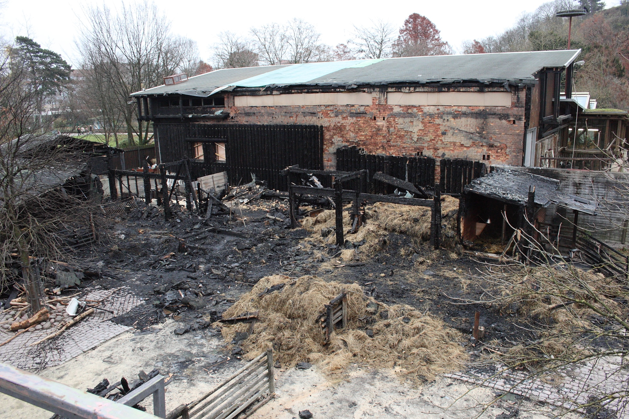 Karlsruhe Zoo, Germany. Fire damage as seen on 21 November 2010.